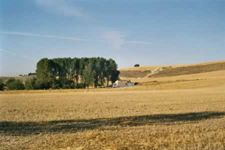 the oddest little albergue on the Camino